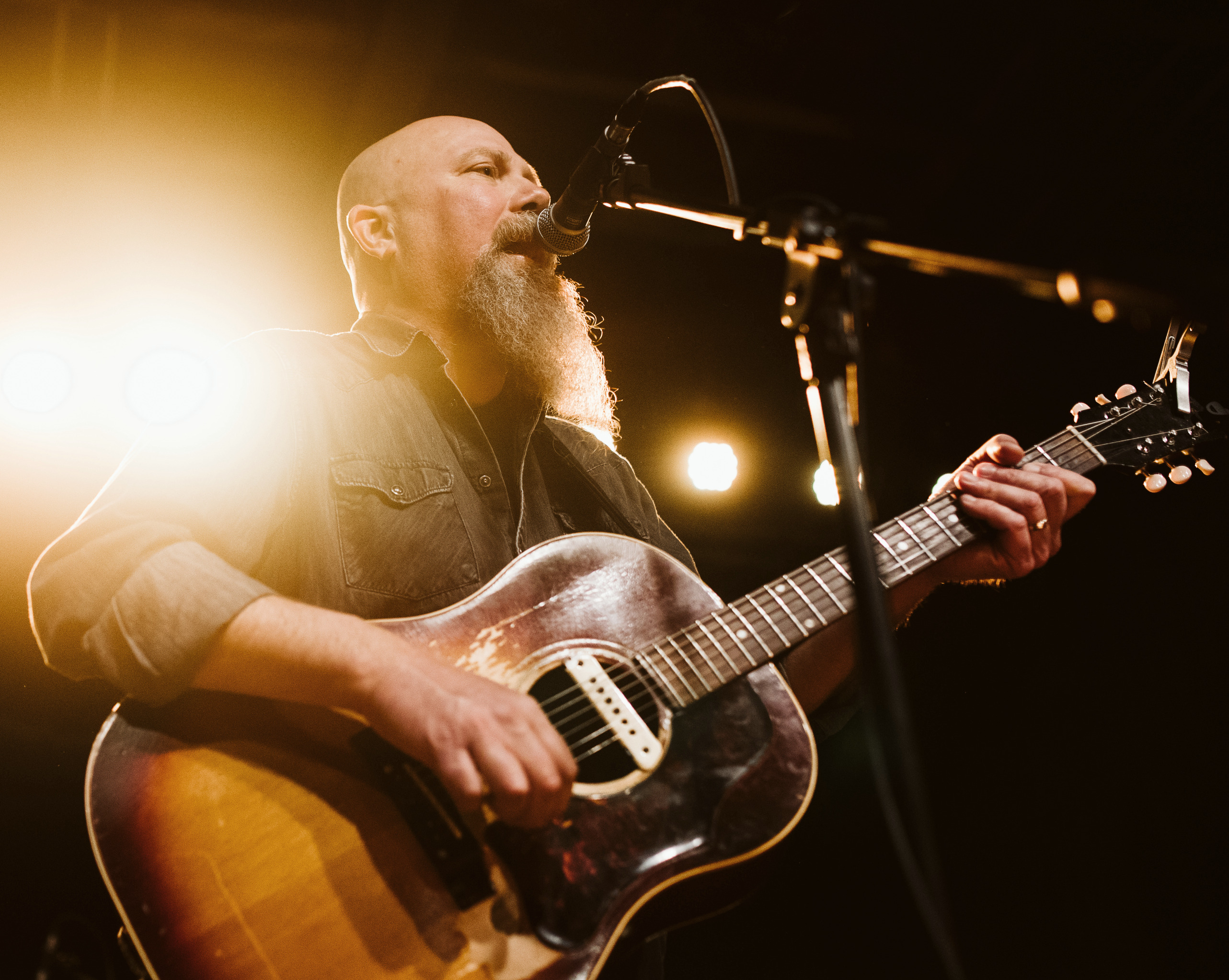 This file is Kendell Marvel performing live at the Exit-In in Nashville Tennessee in December of 2018.